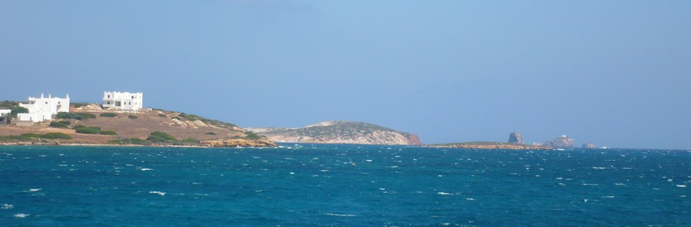 Antiparos little islands in Greece.